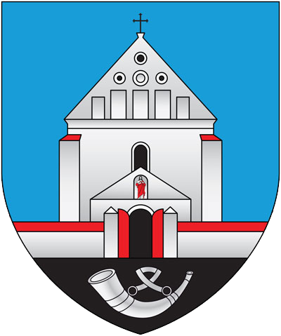 Coat of arms of Čarnaŭčycy